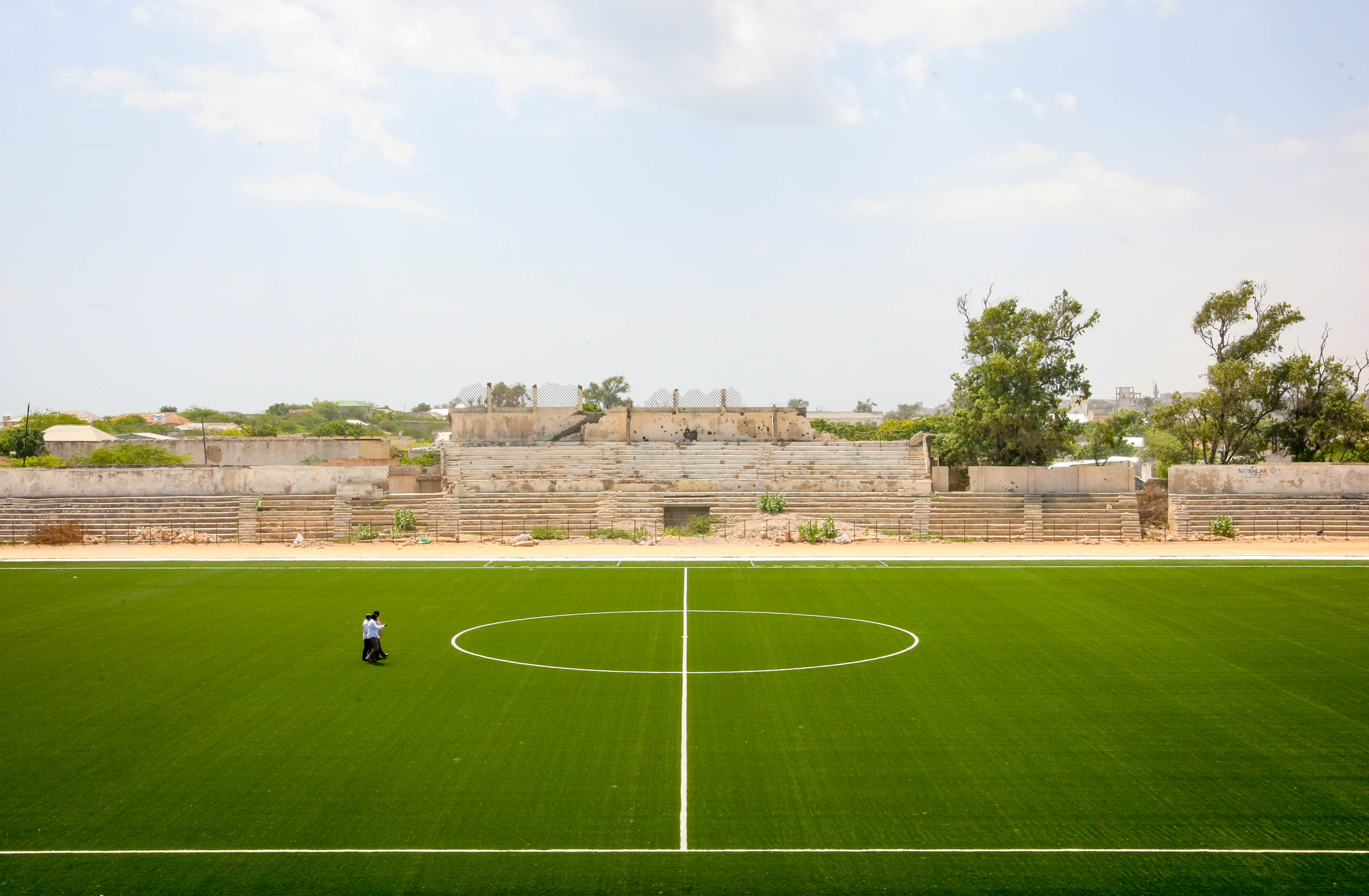 Members of the Somali Football Federation (SFF) walking across the football pitch inside Baanadir Stadium in the Abd-Aziz District of the Somali capital Mogadishu, which has recently been re-surfaced with a new artificial playing surface. Funded by FIFA, the SFF has had the 7,500-capacity stadium re-turfed and will soon begin repair work on seats, parking and other facilities that are currently riddled with reminders of Somalia's war-ridden past. After two decades of near-constant conflict, Somalia is enjoying its longest period of peace and growing security since the Al-Qaeda-allied violent extremist group Al Shabaab was driven from Mogadishu in August 2011. Under the Shabaab's draconian rule, social pastimes and sports such as football were banned but residents of the city and elsewhere across Somalia in areas liberated by sustained operations by the Somali National Army (SNA) supported by troops of the African Union Mission in Somalia (AMISOM) are now enjoying their freedoms once again. On January 19, Africa’s top football teams will meet in South Africa to contest for the continent’s most prestigious football title - the African Nations Cup – and although Somalia has never taken part due to insecurity and the ban on the playing and watching of football by Al Shabaab, the sport is once more growing in obvious evidence across the city and experiencing a surging revival of fortunes and popularity. AU-UN IST PHOTO / STUART PRICE.